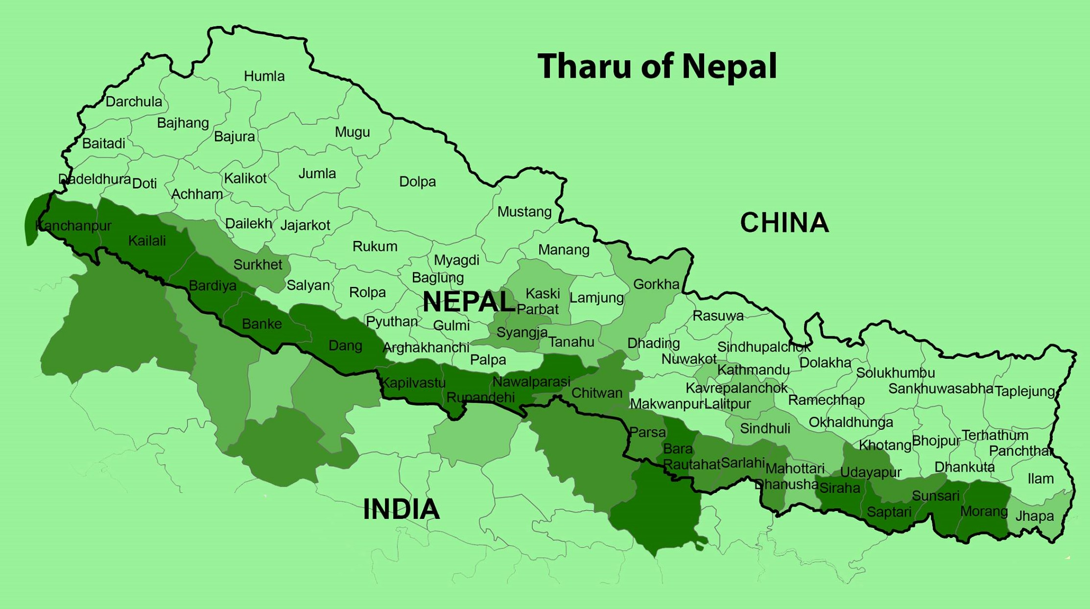 The Tharu human beings are an ethnic institution indigenous to the Terai, north India. The Tharus are recognized as a legit nationality by way of the Governments of Nepal and India. ( यो थारु मानव जगतले एक जातीय संस्थाले तराई, उत्तर भारत आदिवासी हुन्। यो थारुहरू नेपाल र भारतका सरकारले बाटो द्वारा एक सही राष्ट्रियता रूपमा मान्यता छन्।)